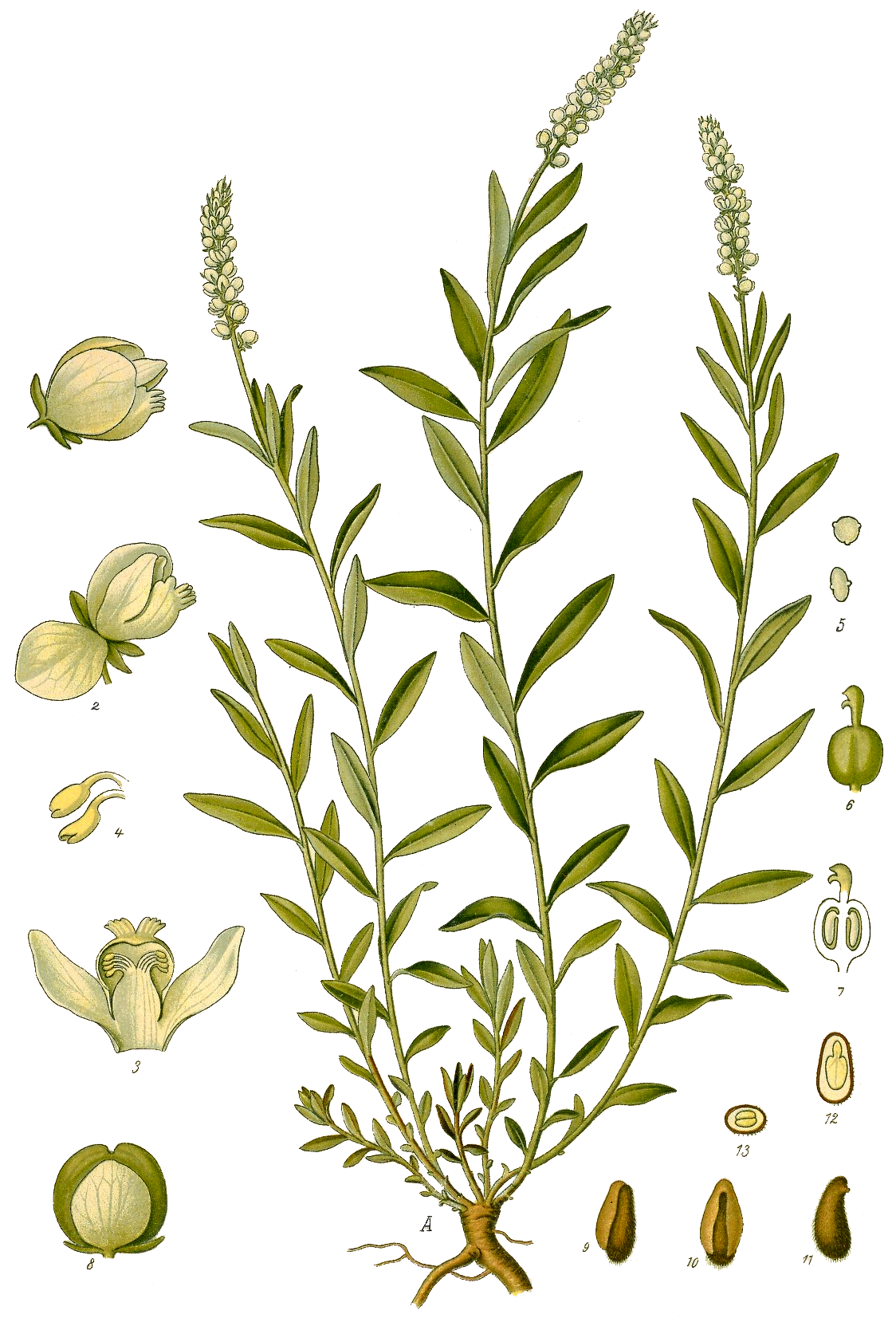 Polygala senega L., (Seneca snakeroot)